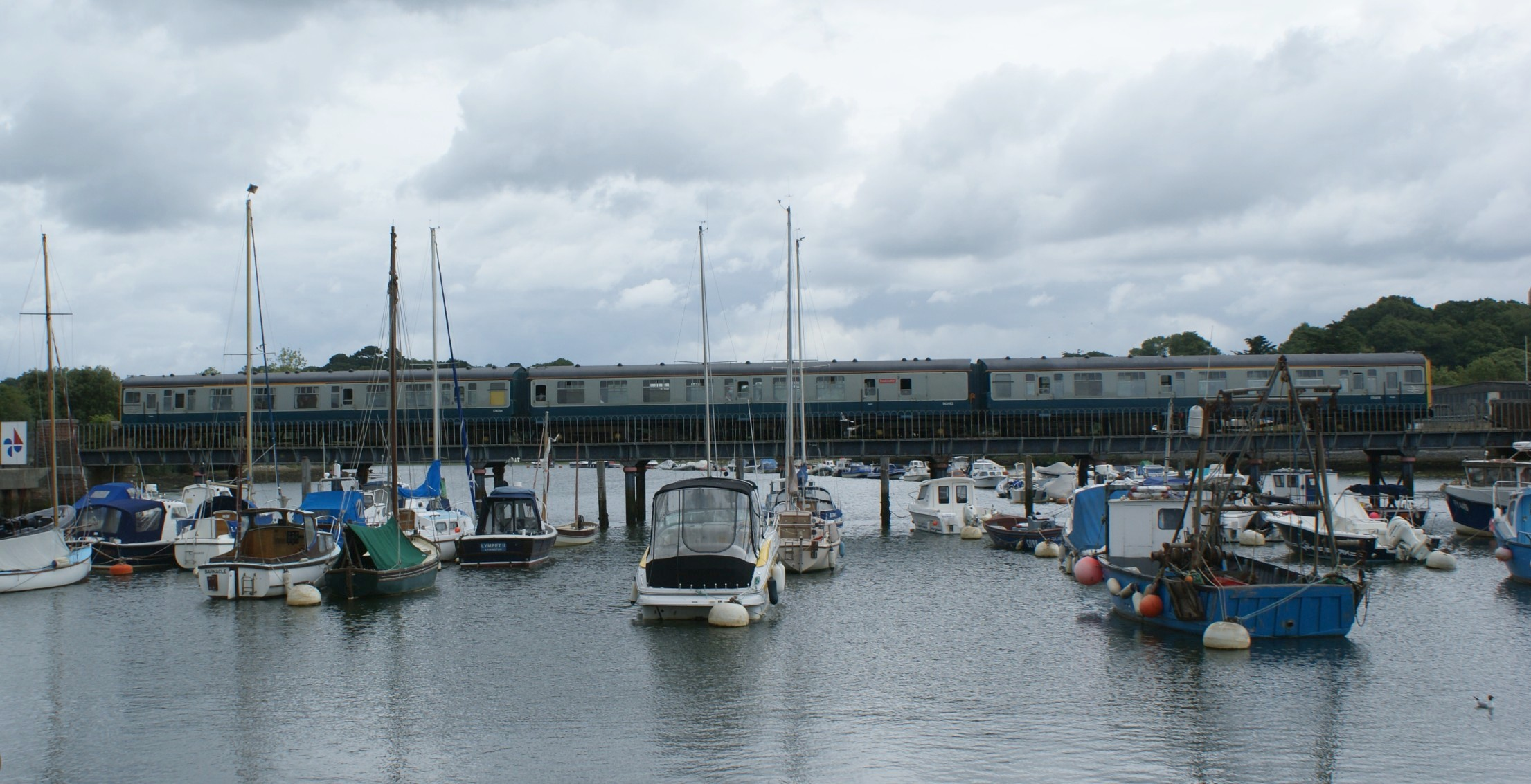 EMU 1497 on the bridge between Lymington Town and Pier